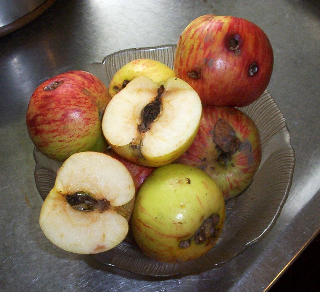 A bowl of gravenstein apples showing the effects of codling moth larva. The larvae feed especially on the protein rich seeds, which explains why the core of the cut apples have been almost completely eaten away.